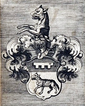 Wappen der Adelsfamilie Wolff von Metternich